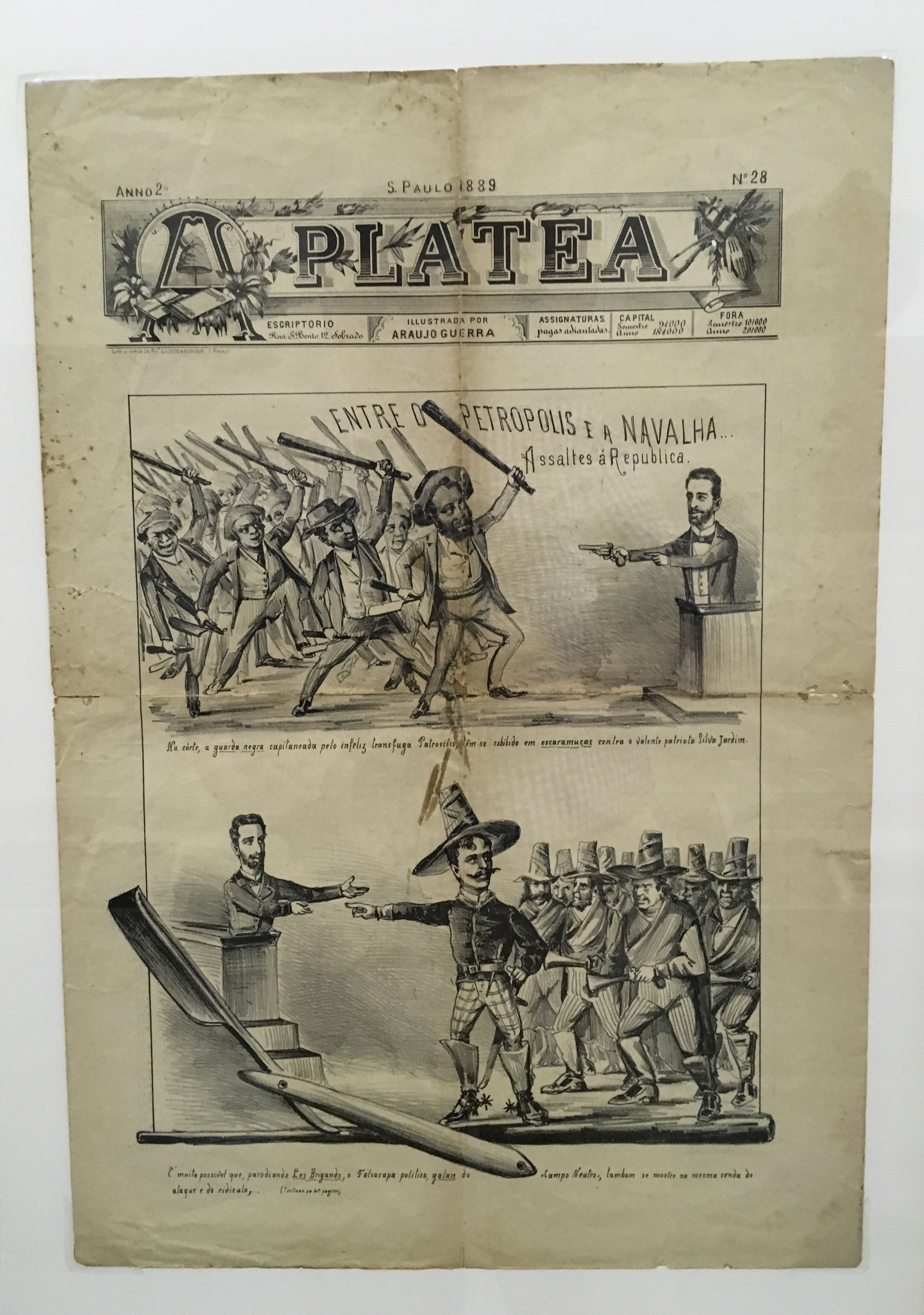 Cover of a Brazilian political journal showing the republican Silva Jardim menaced by enemies